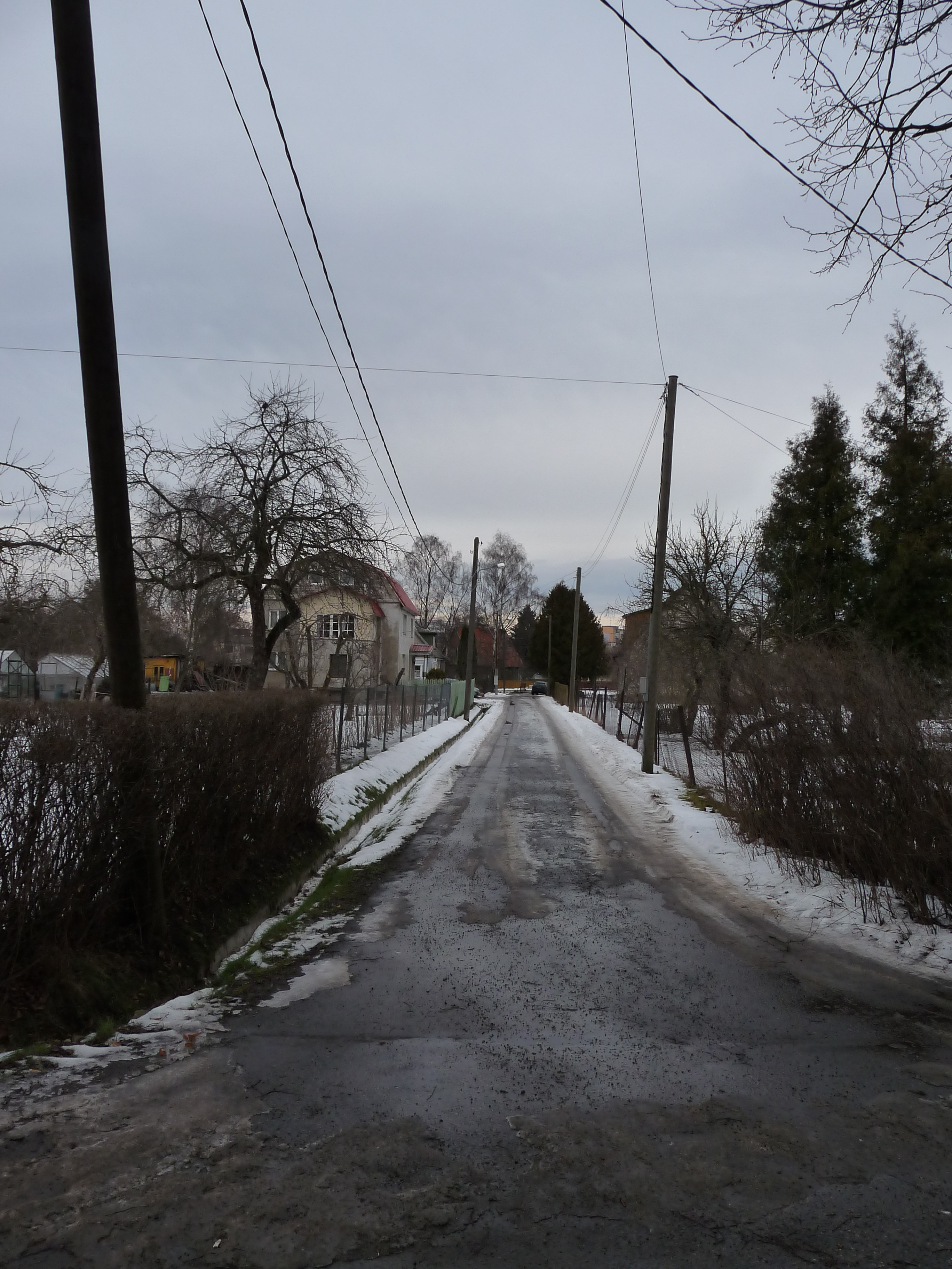 Marjamaa street in Tallinn, Estonia